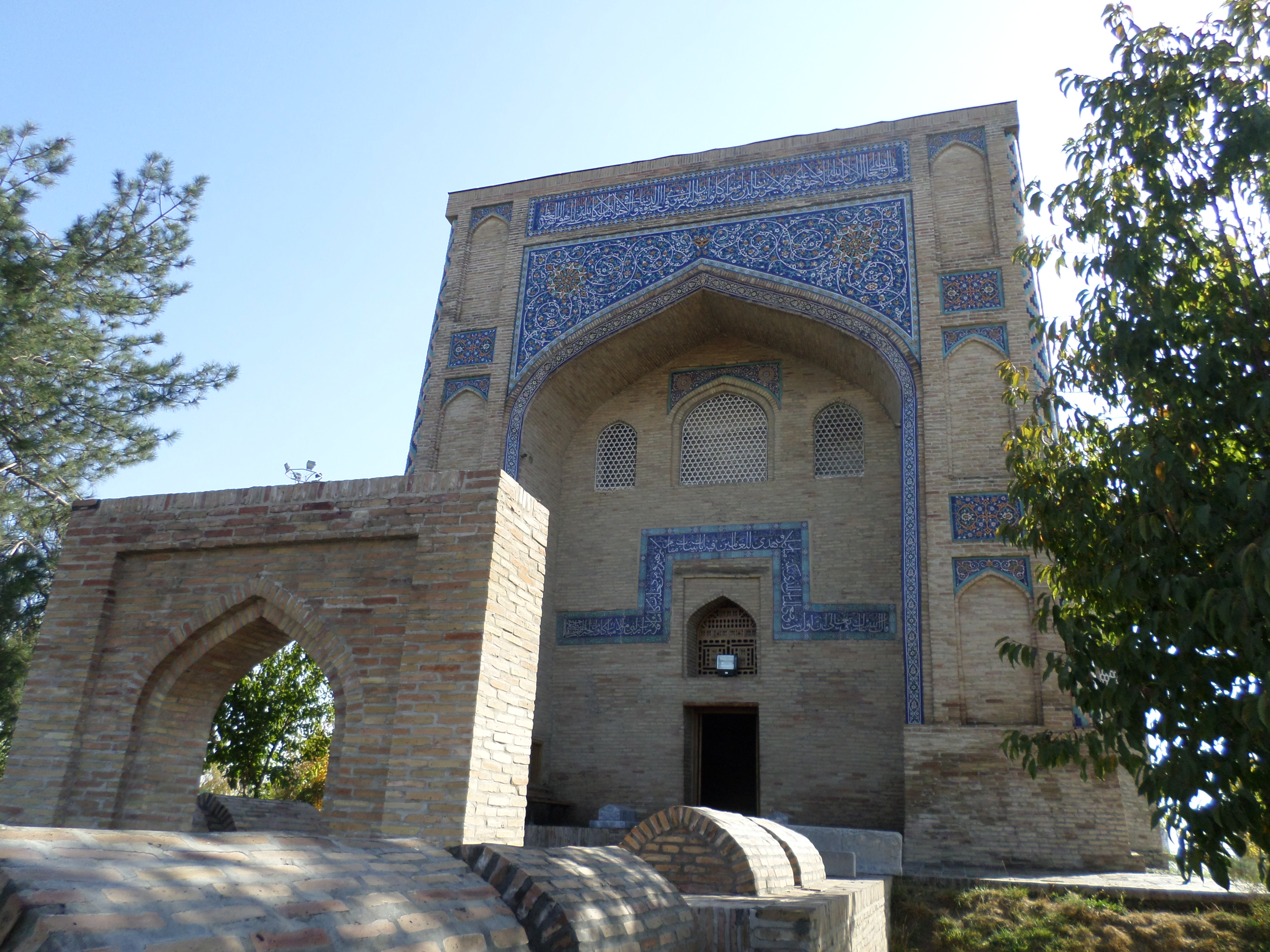 Mavzoley Kaffal Shashi